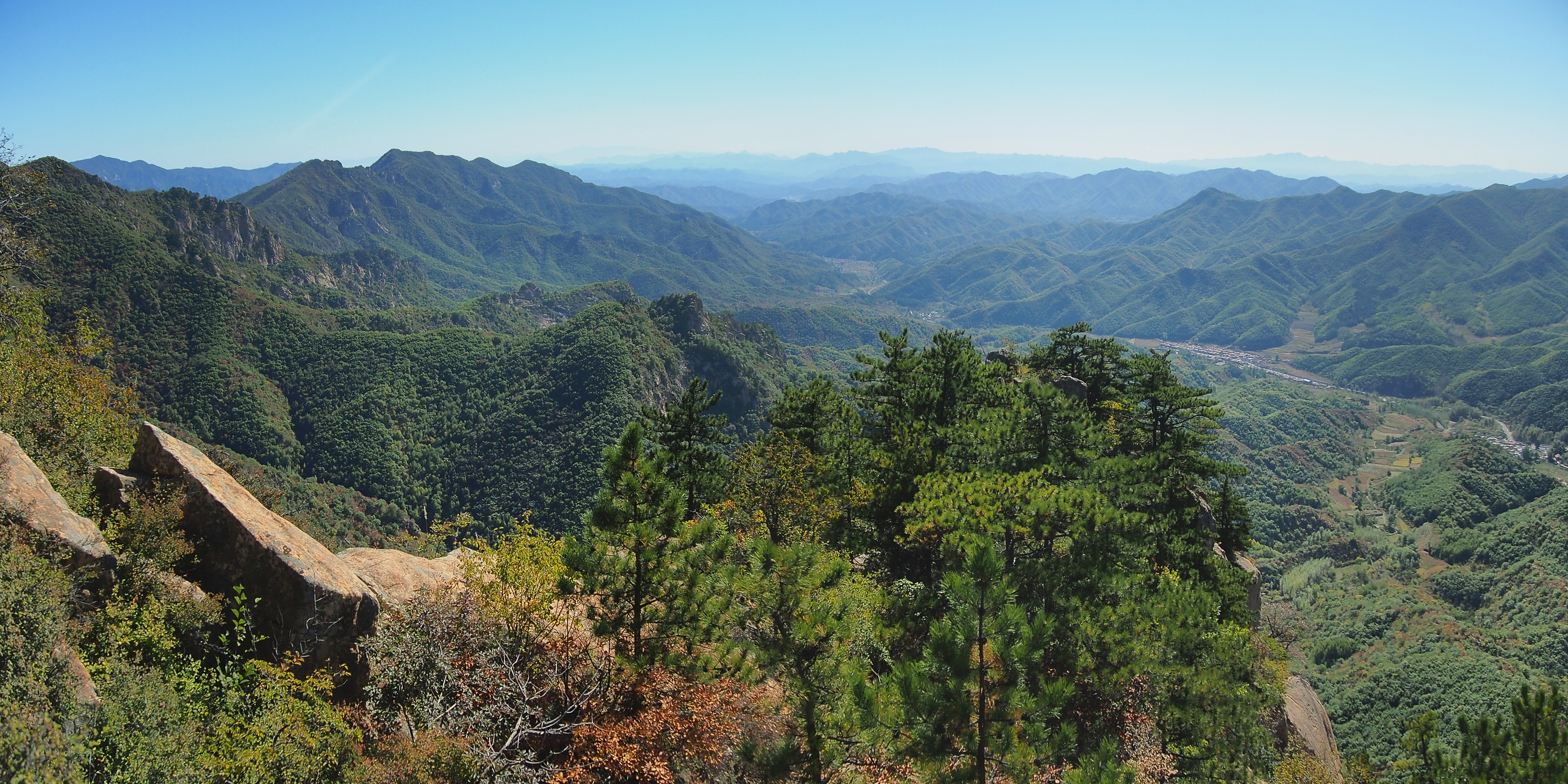 百丈崖顶 - Cliff Top - 2012.10